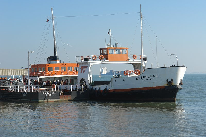 IMO Number: 8966767 MMSI Number: 263701750 Callsign: CSMP Length: 49 m Beam: 11 m Photographer: Osvaldo Gago